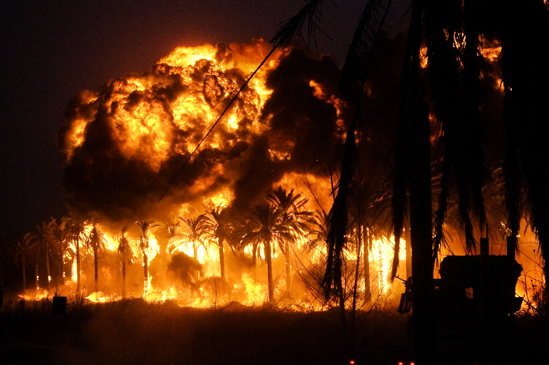 Soldiers from 2nd Battalion, 8th Field Artillery Regiment, 1st Stryker Brigade Combat Team, 25th Infantry Division and Iraqi Soldiers from 2nd Battalion, 19th Brigade, 5th Division, detonate firebombs with the intention of burning the underbrush of a section of palm groves, Dec. 22. The joint clearing operation is the third phase of Operation Archangel Pursuit III in which this new searching technique is being tested. ID: 138232 Date Taken: December 22nd, 2008 Location: Naqib, IQ Photographer: Petty Officer 2nd Class Walt Pels 14th Public Affairs Detachment Associated News